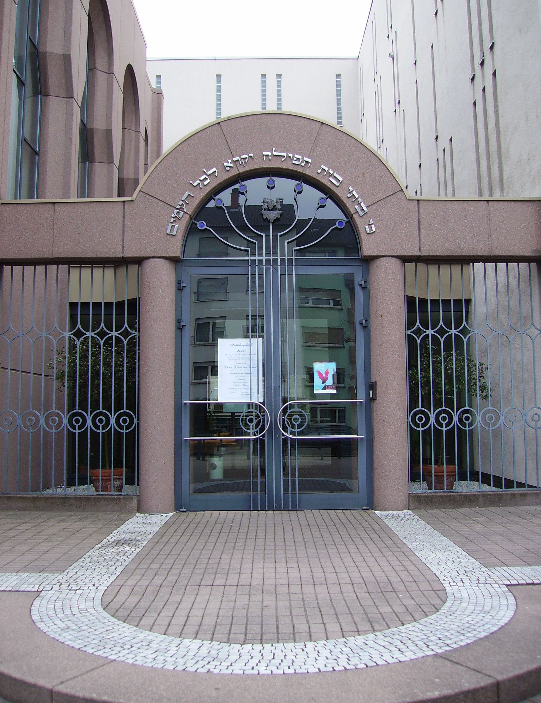 synagogue of Mannheim, Germany